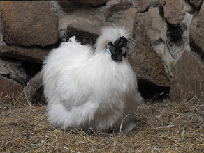 A White Silkie rooster of show stock.